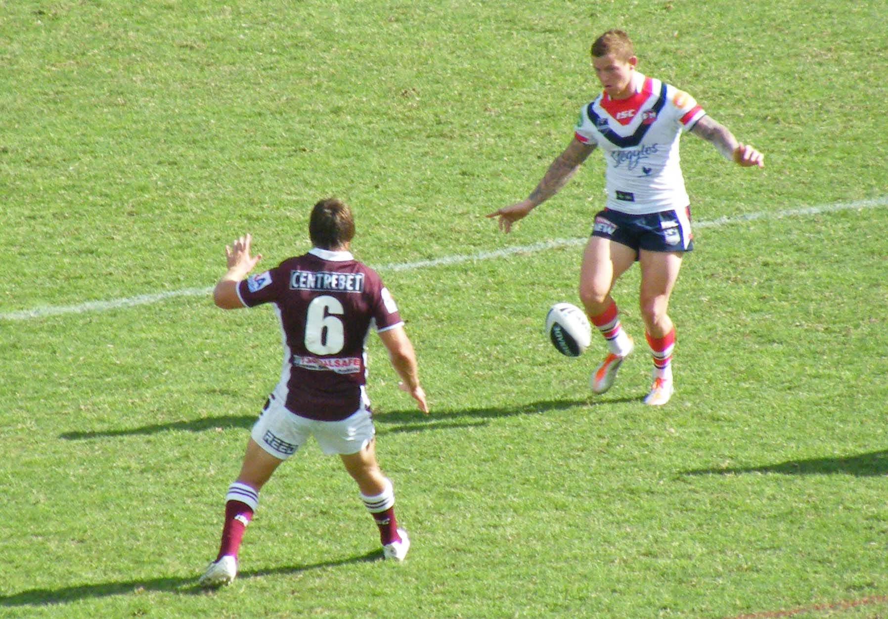 Todd Carney, rugby league player